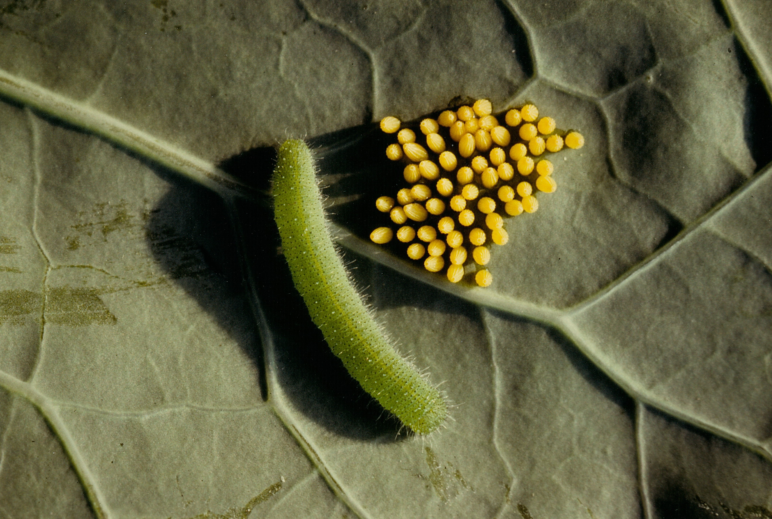 Pieris rapae caterpillar and Pieris brassicae eggs